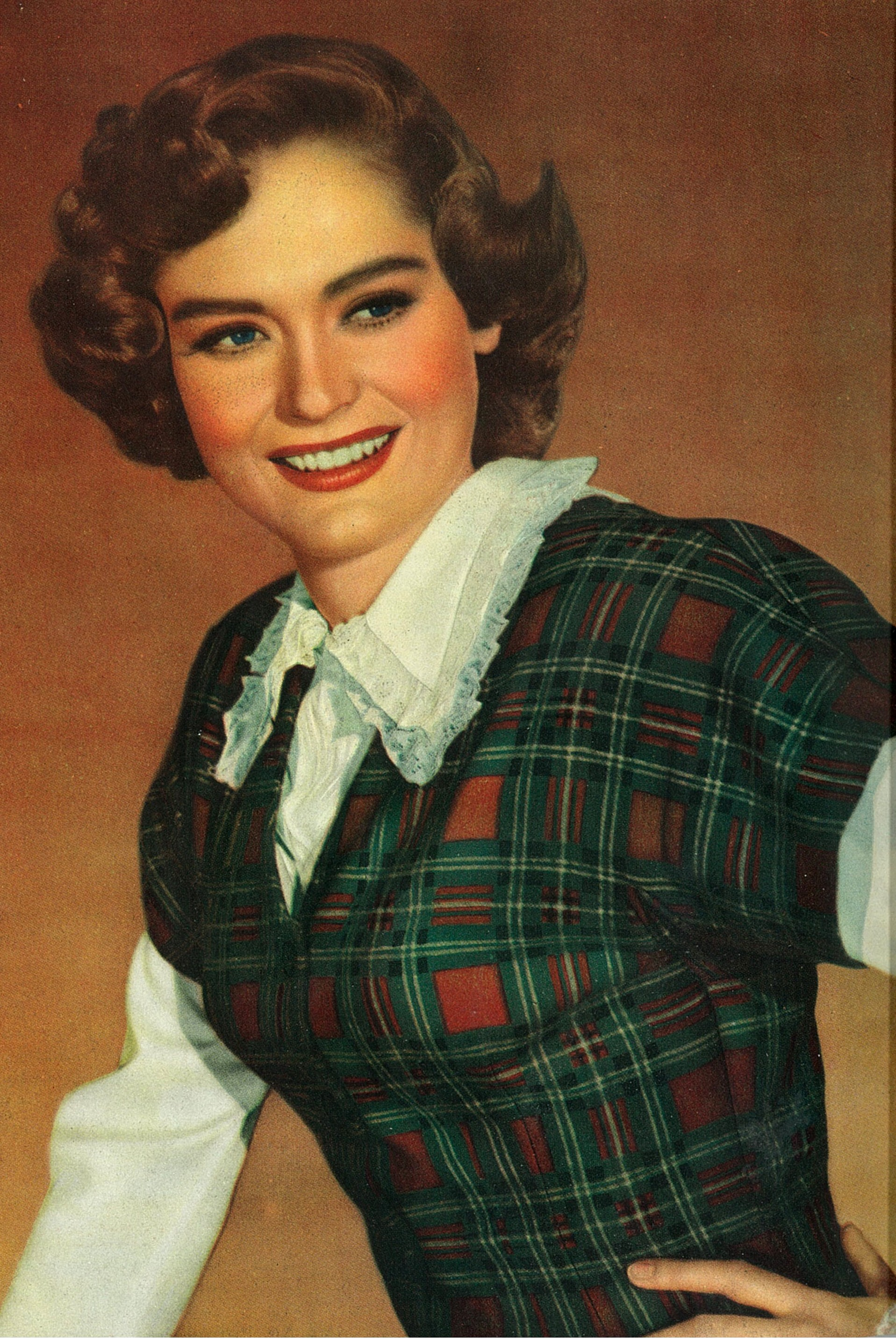 Eiga No Tomo (映画之友) February 1951 page 26 featuring Alexis Smith